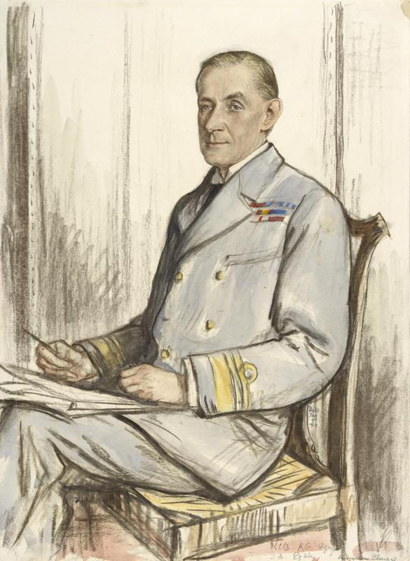 Vice-admiral Sir William Lowther Grant, Kcb image: a three quarter length portrait of Vice Admiral Sir William Grant, wearing Royal Navy uniform and sitting on a chair with papers in his lap and a pen in his right hand.